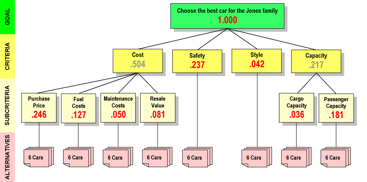 Analytic Hierarchy Process. Illustration for an article.